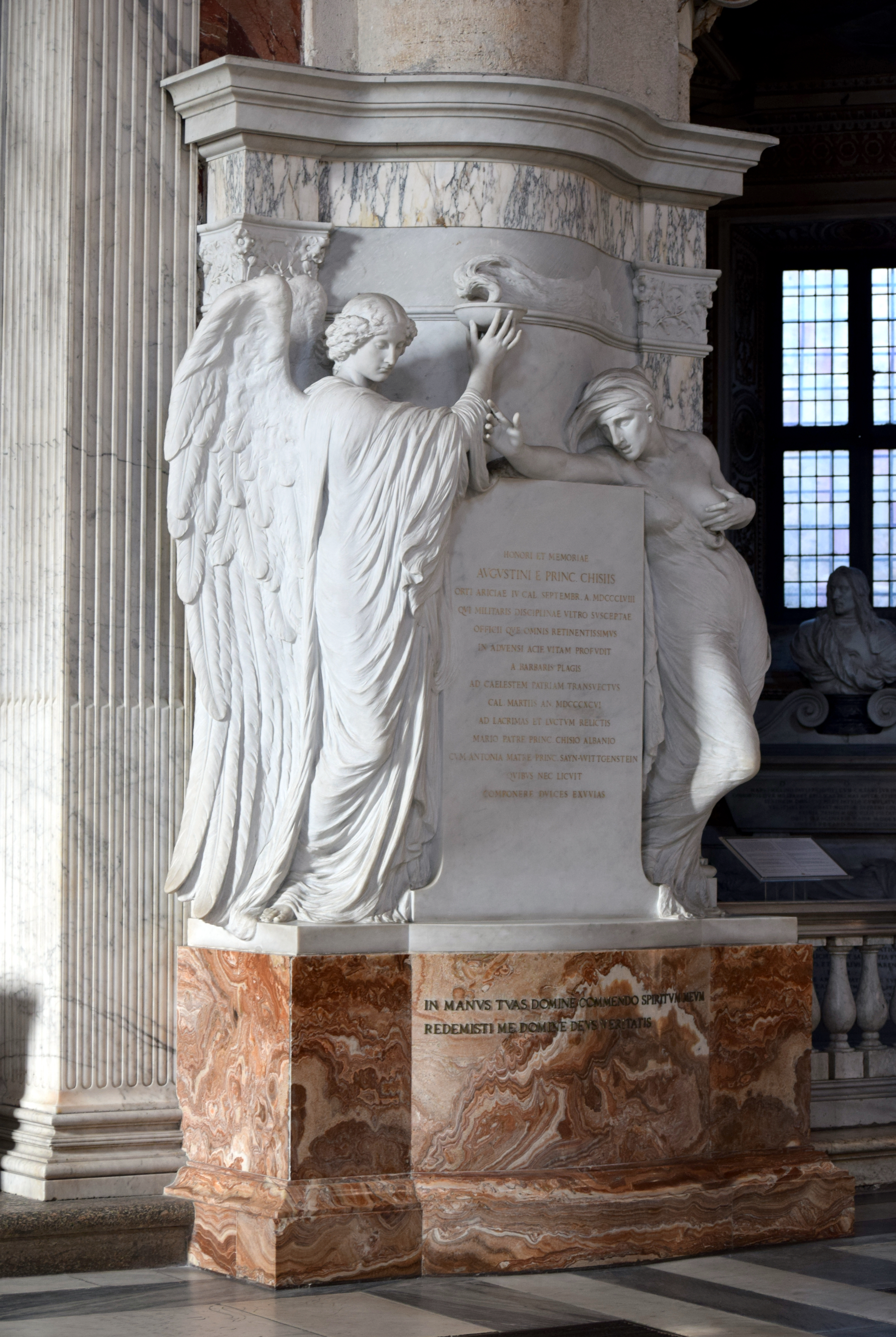 The monument of Prince Agostino Chigi in the Basilica of Santa Maria del Popolo. Created by Adolfo Apolloni in 1915.